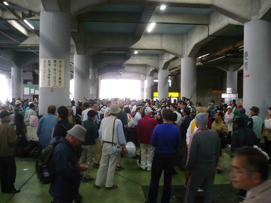 Pipefest Japan 2008